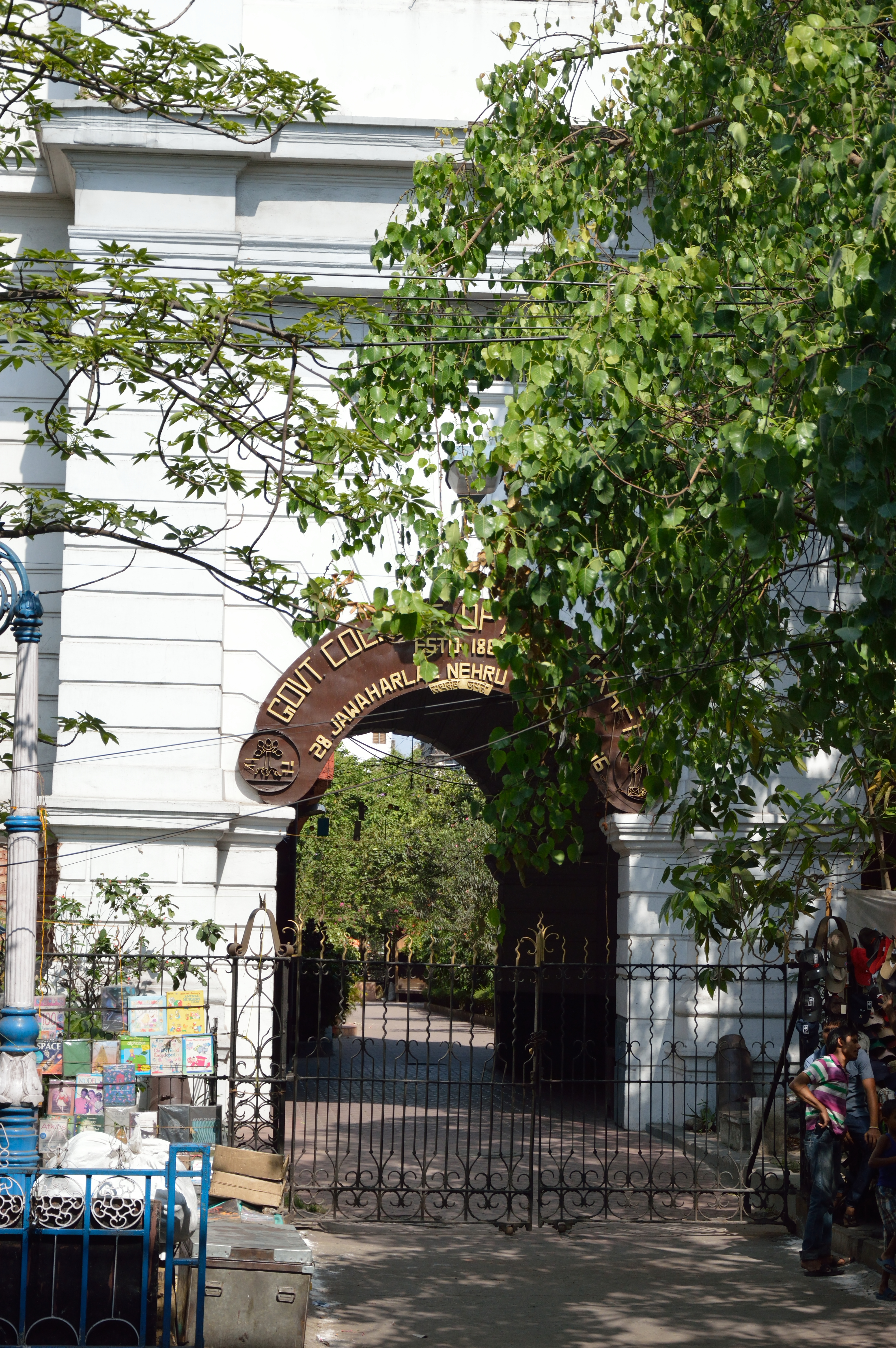 Photographed in greater Kolkata.